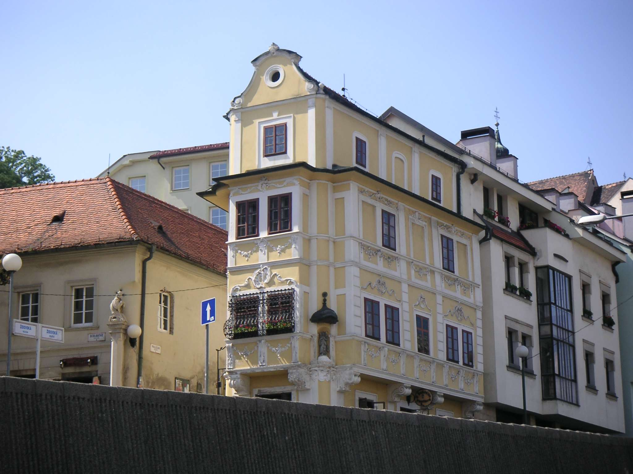 city of Bratislava - house of the good shepherd selftaken on July, 17th, 2004 photographer: Martin Proehl